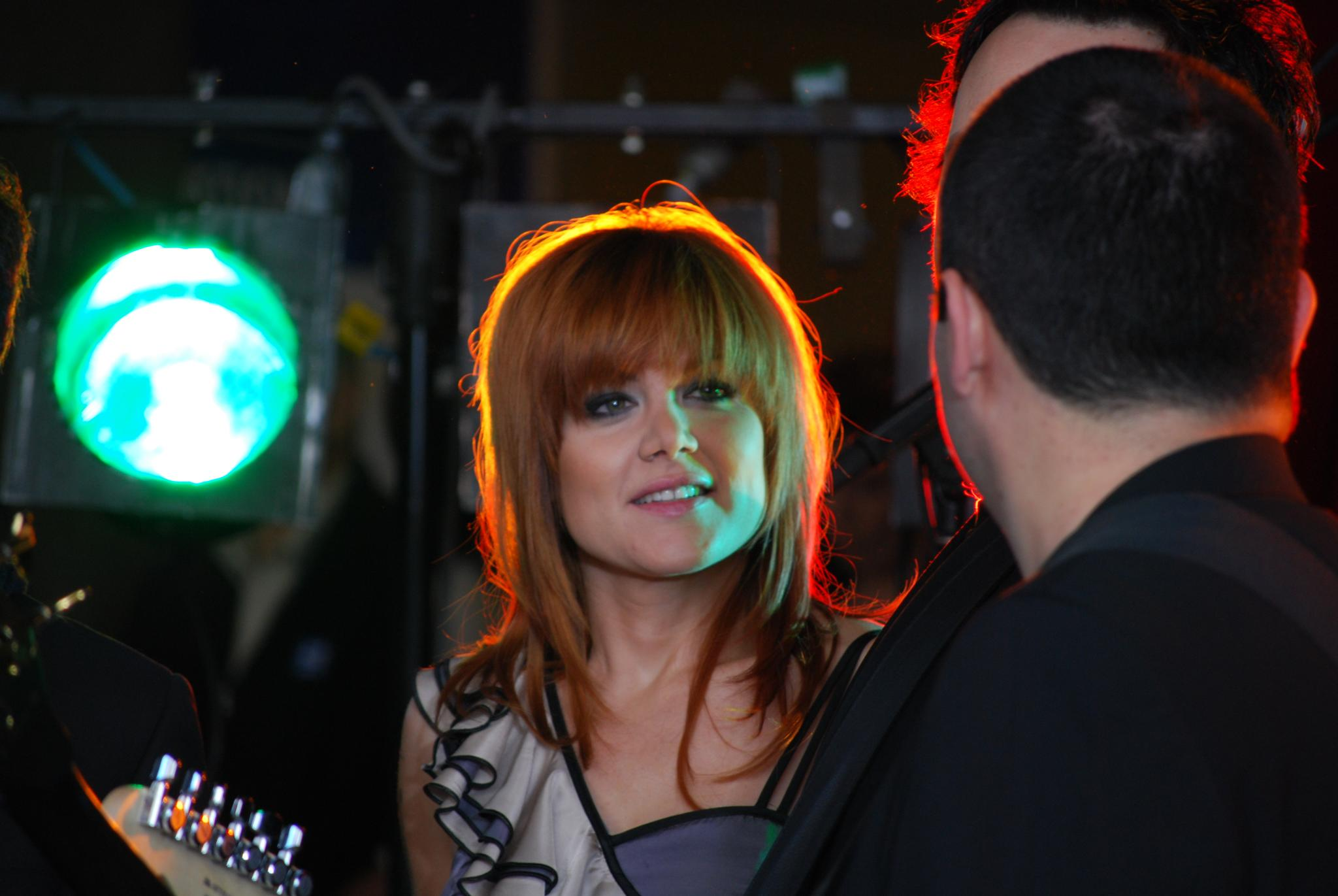 Vanessa Amorosi singing her first number 1 single This is who I am from her upcoming Hazardous album! "This Is Who I Am" On 28 August 2009 Amorosi's new song "This Is Who I Am" was serviced to Australian radio. On 31 August 2009 Universal Music Australia released a press release for Amorosi's new single with details of new single and album. The first single to spawn from her forthcoming album is the fierce pop-rock song "This Is Who I Am". The undoubtable hit single was produced by MachoPsycho (Pink) and mixed by Chris Lord-Alge (Green Day) and was serviced to Australian radio this week. The video for "This Is Who I Am" was recently shot in Los Angeles and directed by Christopher R Watson who is better known for his work on the international hit TV series "CSI New York" and horror film "Hostel". The video was predominately shot on green screen and will launch on September 14. - Universal Music Australia "This Is Who I Am" debuted at number 1 on the ARIA Charts for the week beginning October 18, 2009. This is Amorosi's first number 1 single. The single holds the top spot for the second week in a row - becoming the first Australian artist to debut at #1 and hold #1 single since Silverchair's "Straight Lines" in 2007. "This Is Who I Am" has achieved Gold sales in Australia. Her new album Hazardous is set for release on November 6, 2009. --- The Today team have galloped into Melbourne to kick off festivities for the biggest racing event on the social calendar, the 2009 Melbourne Cup Carnival. To celebrate the Carnival, TODAY is broadcasting LIVE from Bourke Street Mall this Thursday and Friday. Karl and Lisa, along with Cam, Georgie, Richard, Steve and Richard Reid, are bringing all the fun, fashion and excitement of TODAY to the streets of Melbourne. .au/